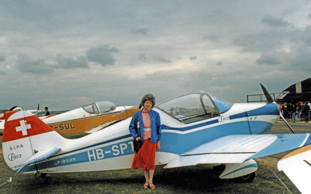 Sipa S.903 HB-SPT at Cranfield airfield in 1989